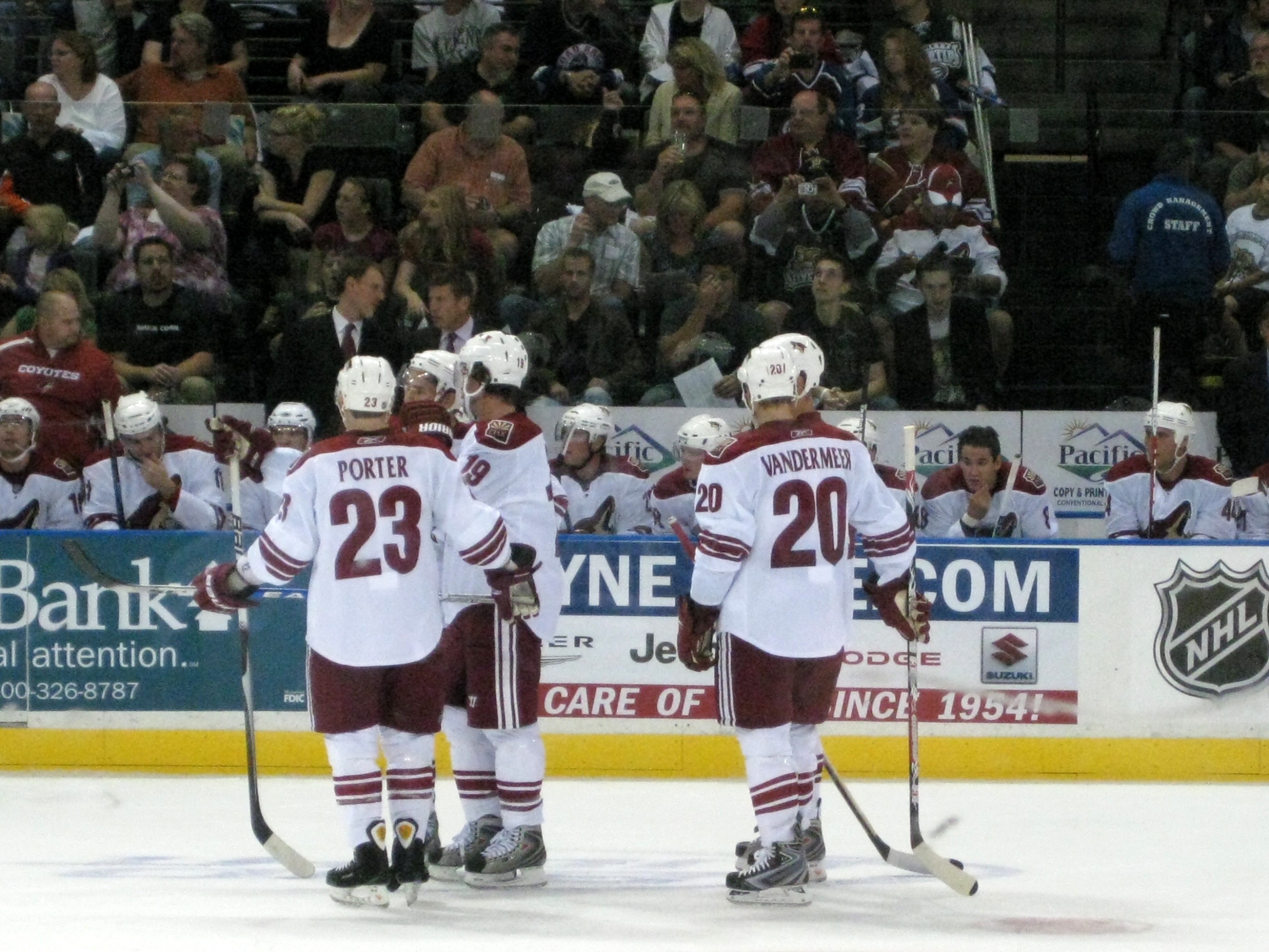 Pictures from the NHL Exhibition from Everett, WA between the Tampa Bay Lighting and the Phoenix Coyotes